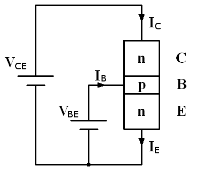 Npn transistor structure and circuit.